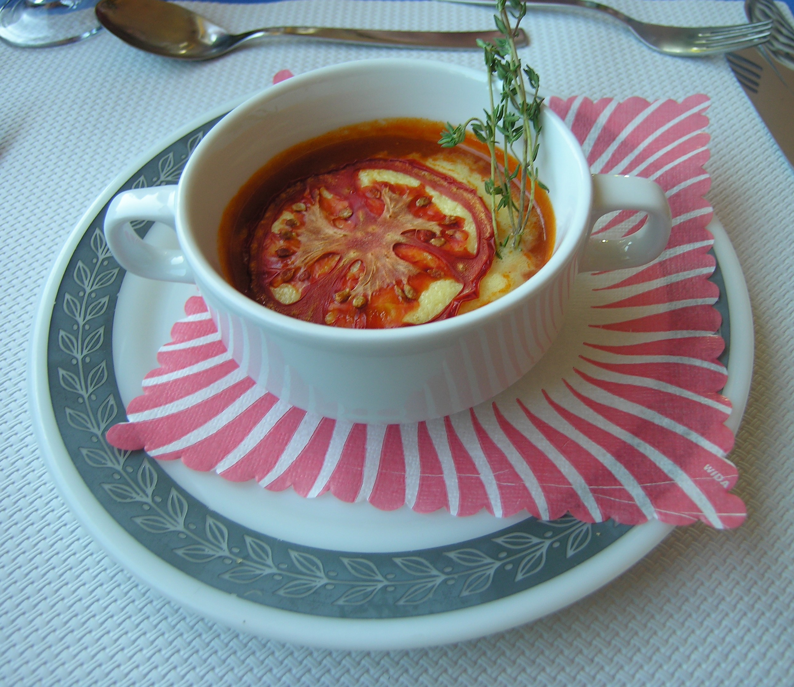 Soup, as served in Swiss mountain restaurant as Schynige Platte